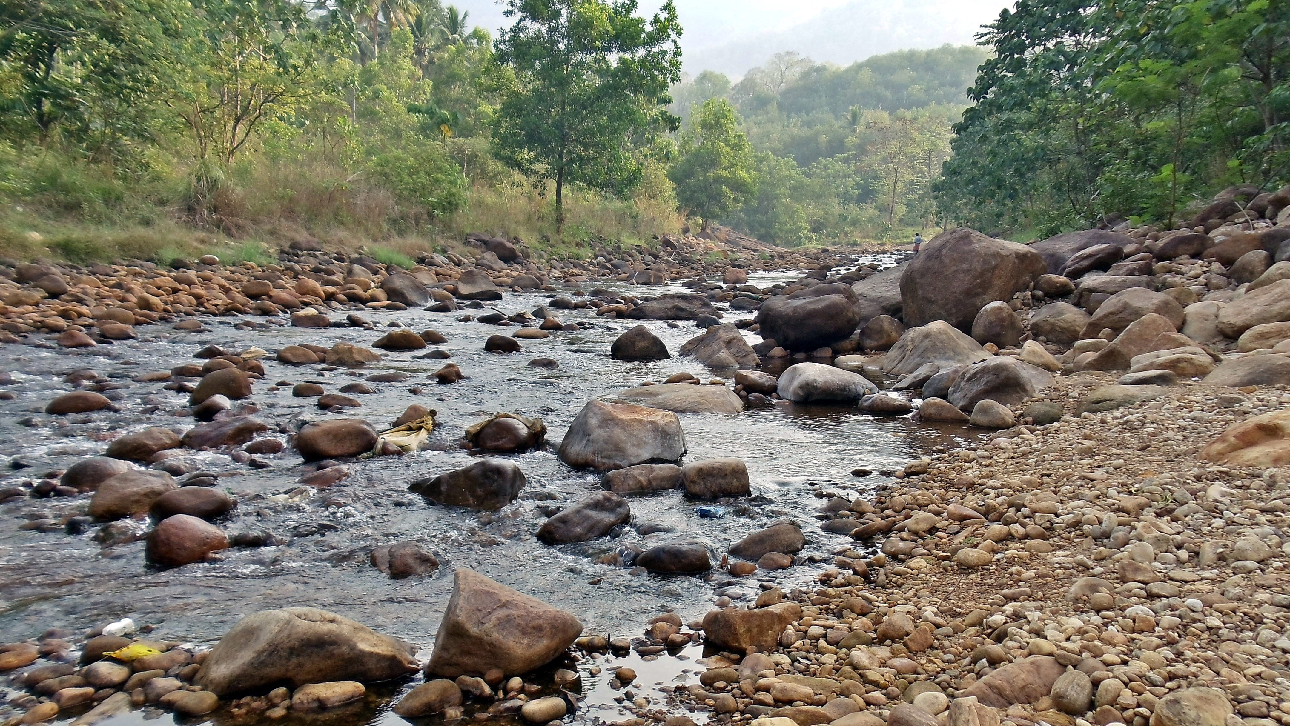 Kallar, A River in Kerala, Starting from Ponmudi in Trivandrum District